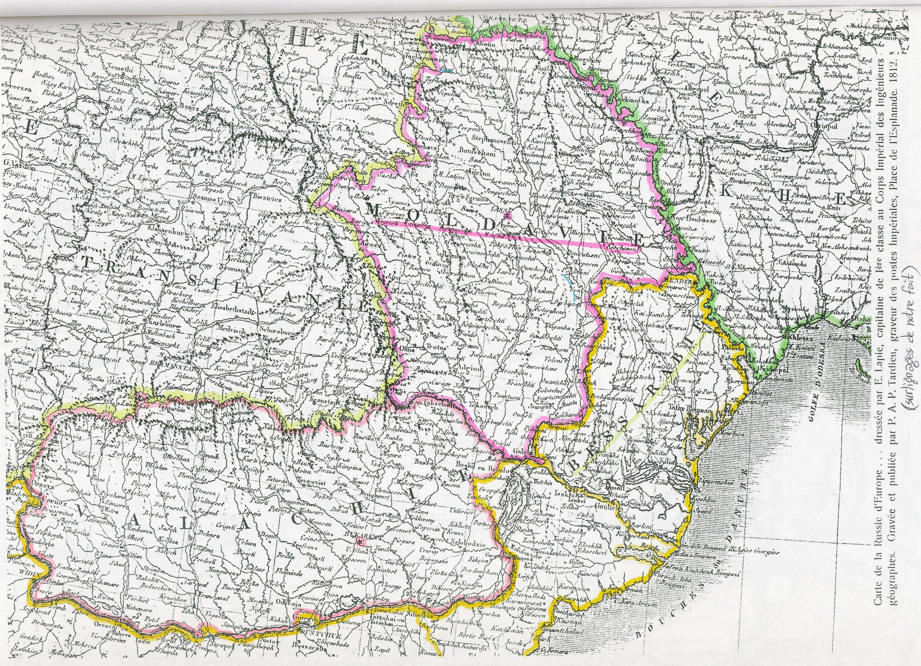 Part of a French map of European Russia, 1812 (PD-old).